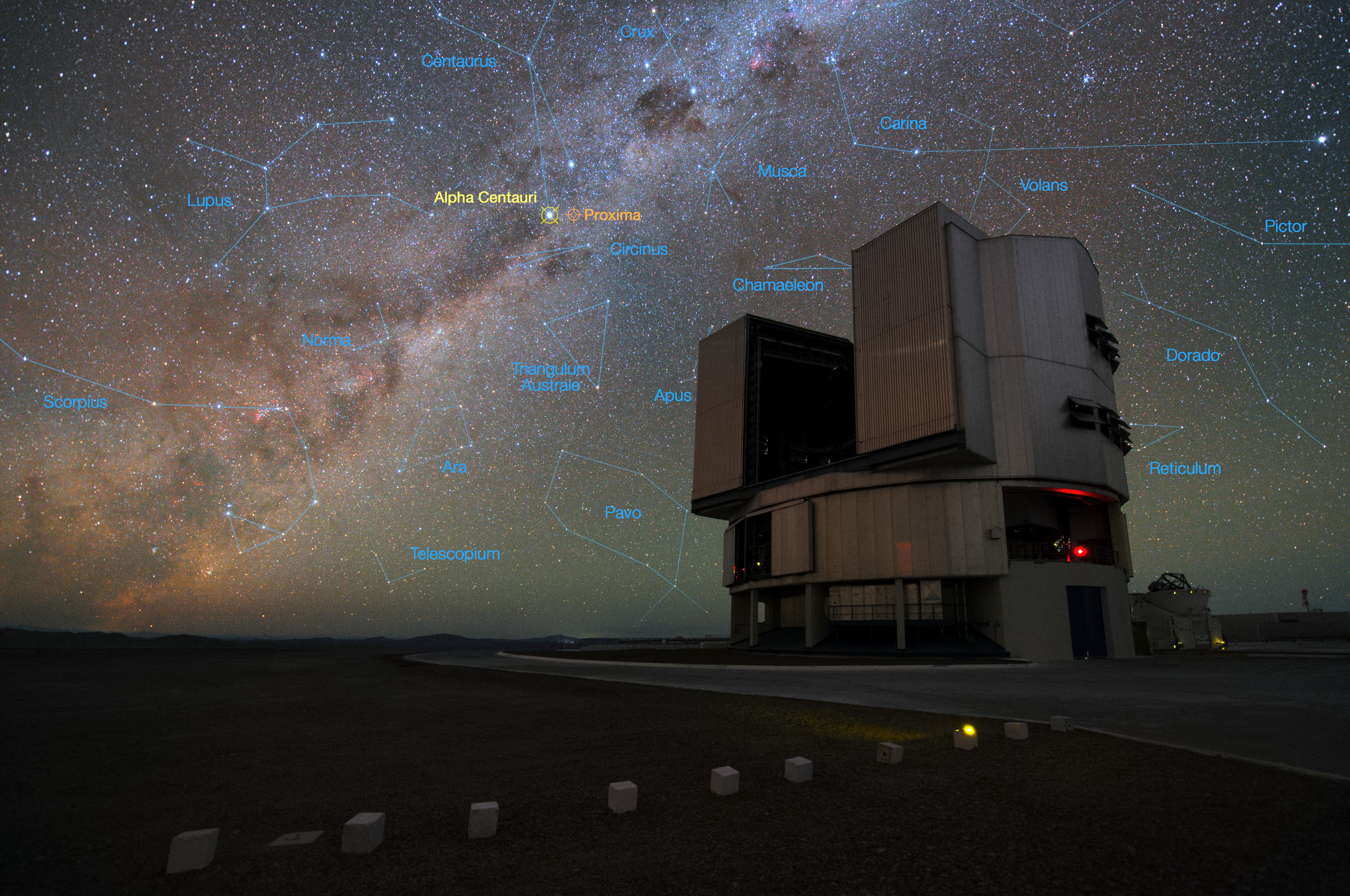 The foreground of this image shows ESO’s Very Large Telescope (VLT) at the Paranal Observatory in Chile. The rich stellar backdrop to the picture includes the bright star Alpha Centauri, the closest stellar system to Earth. In late 2016 ESO signed an agreement with the Breakthrough Initiatives to adapt the VLT instrumentation to conduct a search for planets in the Alpha Centauri system. Such planets could be the targets for an eventual launch of miniature space probes by the Breakthrough Starshot Initiative.